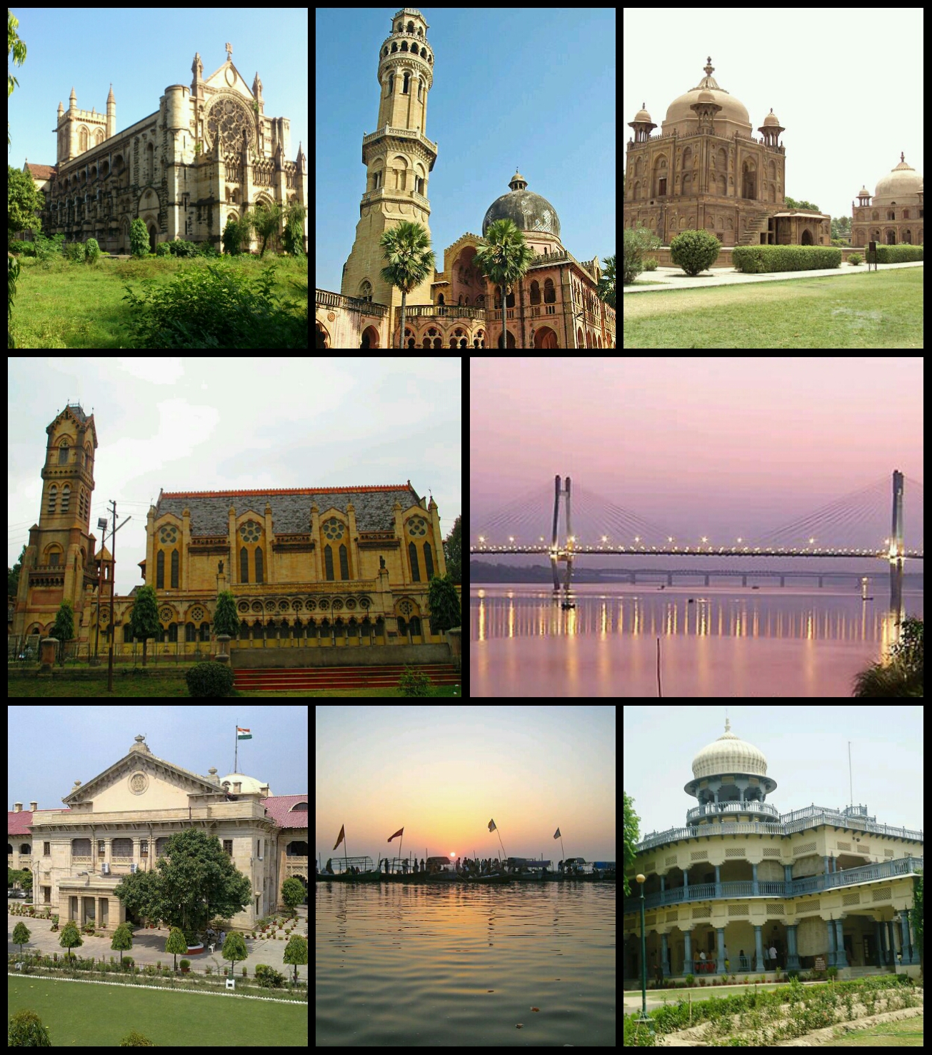 Montage of Prayagraj : Clockwise from top left: All Saints Cathedral, Muir Central College of Allahabad University, Khusro Bagh, New Yamuna Bridge, Anand Bhavan, Triveni Sangam, Allahabad High Court, Thornhill Mayne Memorial.